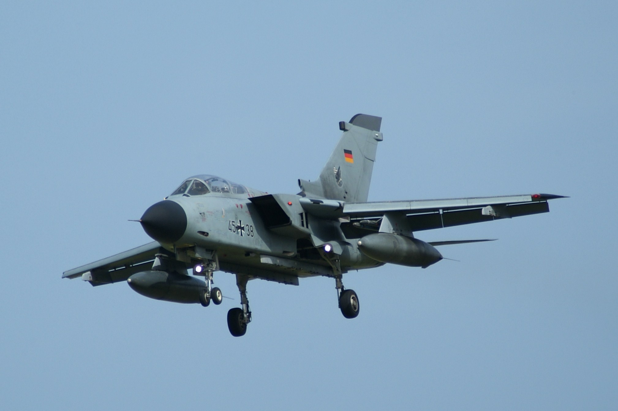 Panavia Tornado